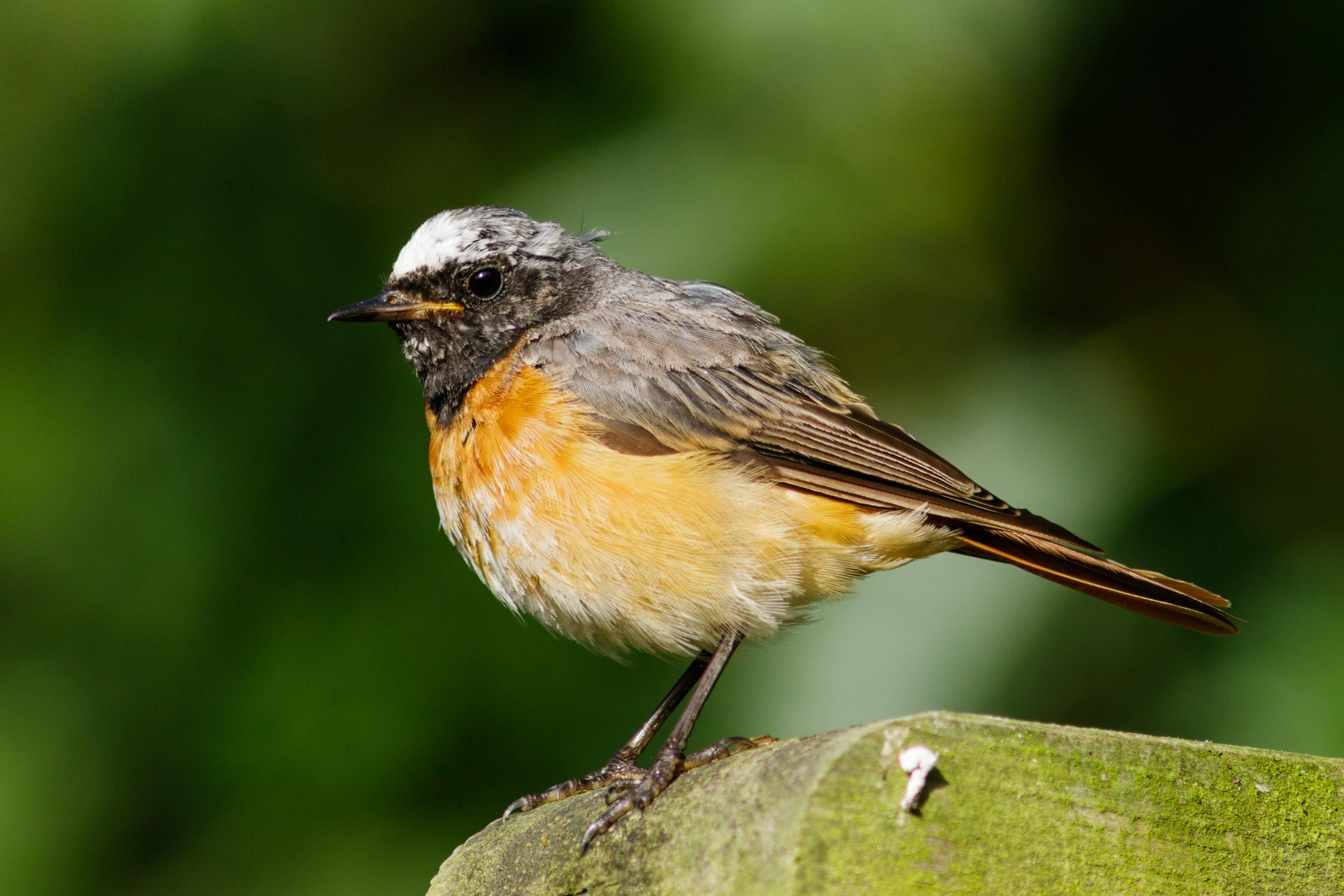 Male Common Redstart Phoenicurus phoenicurus, photographed in Skaven, Denmark